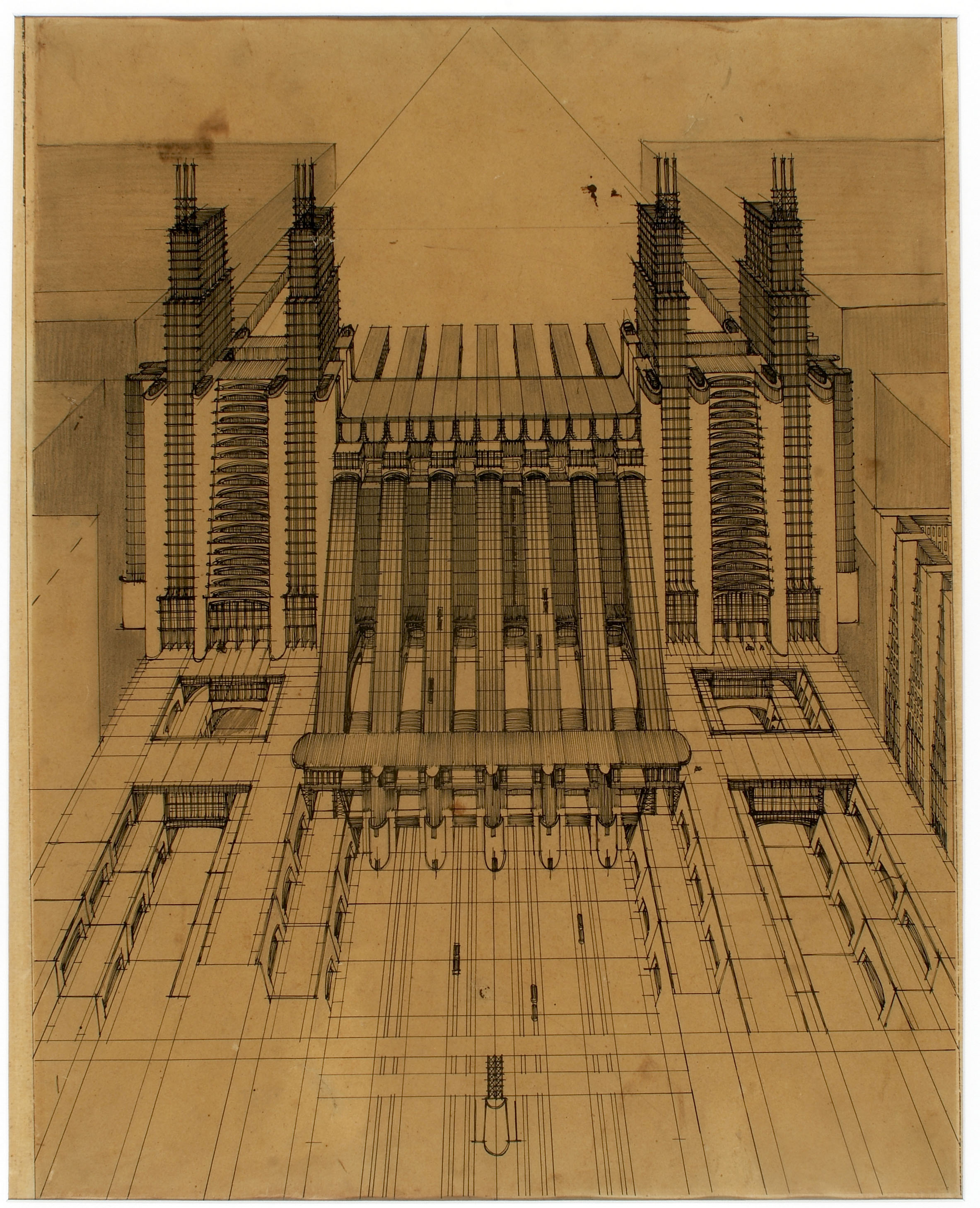 Part of the series La Città Nuova, 1914.